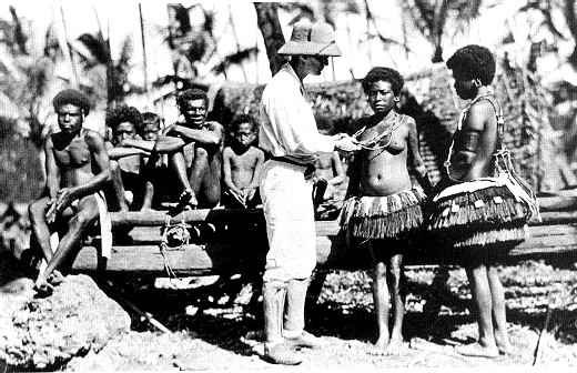 Picture of Bronislaw Malinowski with natives on Trobriand Islands, ca 1918.